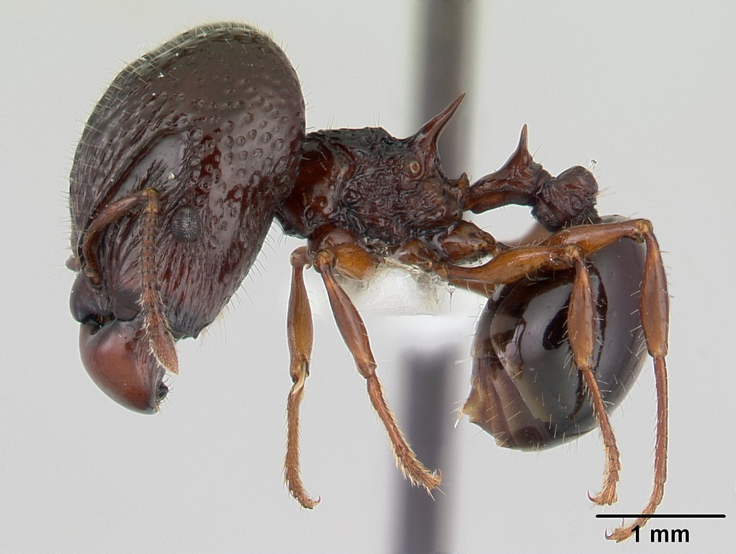 Profile view of ant Acanthomyrmex ferox specimen casent0178570.